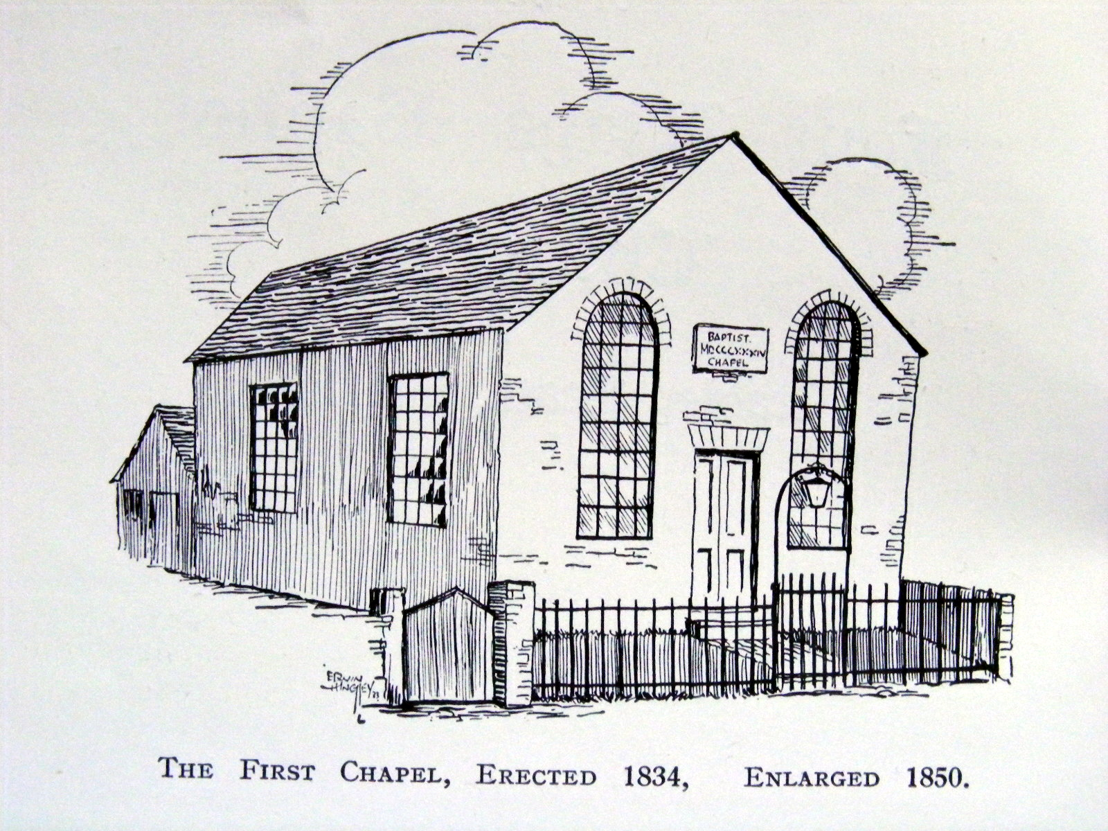 Cradley Heath Baptist Church original chapel building, skecthed from memory by Mr Fred Southall, etched by Mr E Hingley for the centenary history book of 1933. This is not an exact record of the original building, but a good representation by an eye-witness.